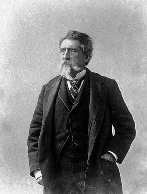 [Photographer Mathew B. Brady, three-quarter length portrait, facing front]. CREATED/PUBLISHED [1889] NOTES Photograph possibly by Levin C. Handy, d. 1932. Reference: American Memory edition timeline. No. 1112 SUBJECTS Brady, Mathew B.,--1823 (ca.)-1896. United States--History--Civil War, 1861-1865 Portrait photographs. Photographic prints. MEDIUM 1 photographic print. CALL NUMBER Item in BIOG FILE - Brady, Mathew REPRODUCTION NUMBER LC-BH827-2102 DLC (b&w glass neg.) REPOSITORY Library of Congress Prints and Photographs Division Washington, D.C. 20540 USA DIGITAL ID (intermediary roll film) cwp 4a40923